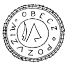 Municipal seal of the municipality Pocoucov